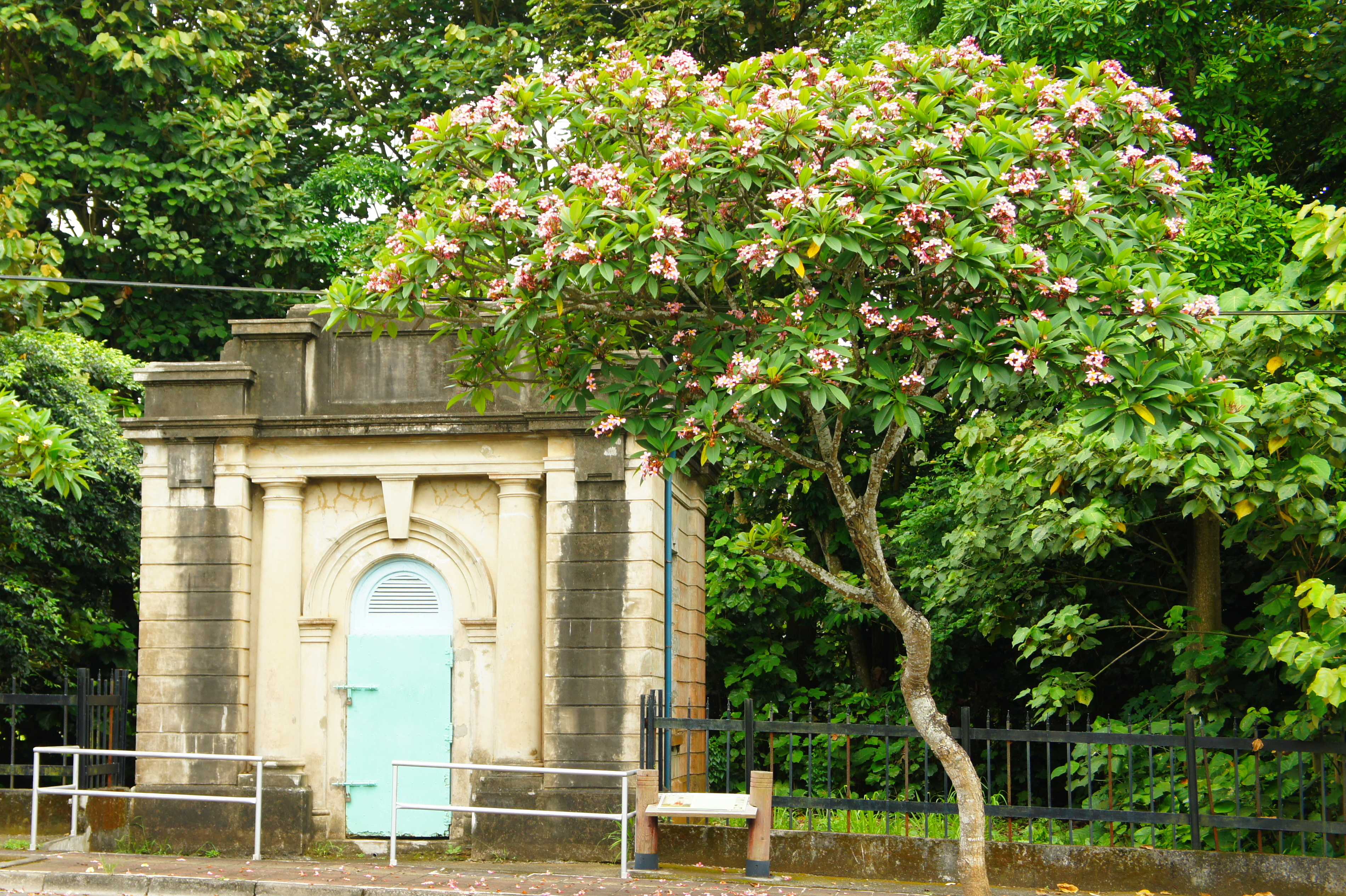 The Water Meter Room, Chiayi, Taiwan.